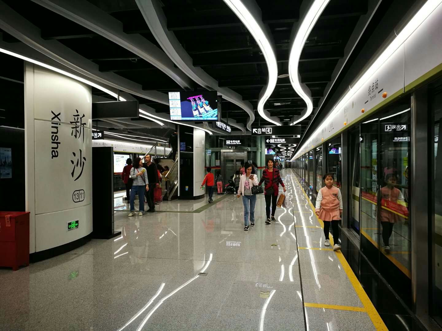 Station Platform for Xinsha Station in Guangzhou Metro.